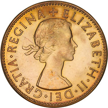 1953 Australian Halfpenny Obverse.